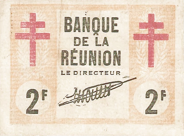 Réunion, 2 francs croix de Lorraine, 1943